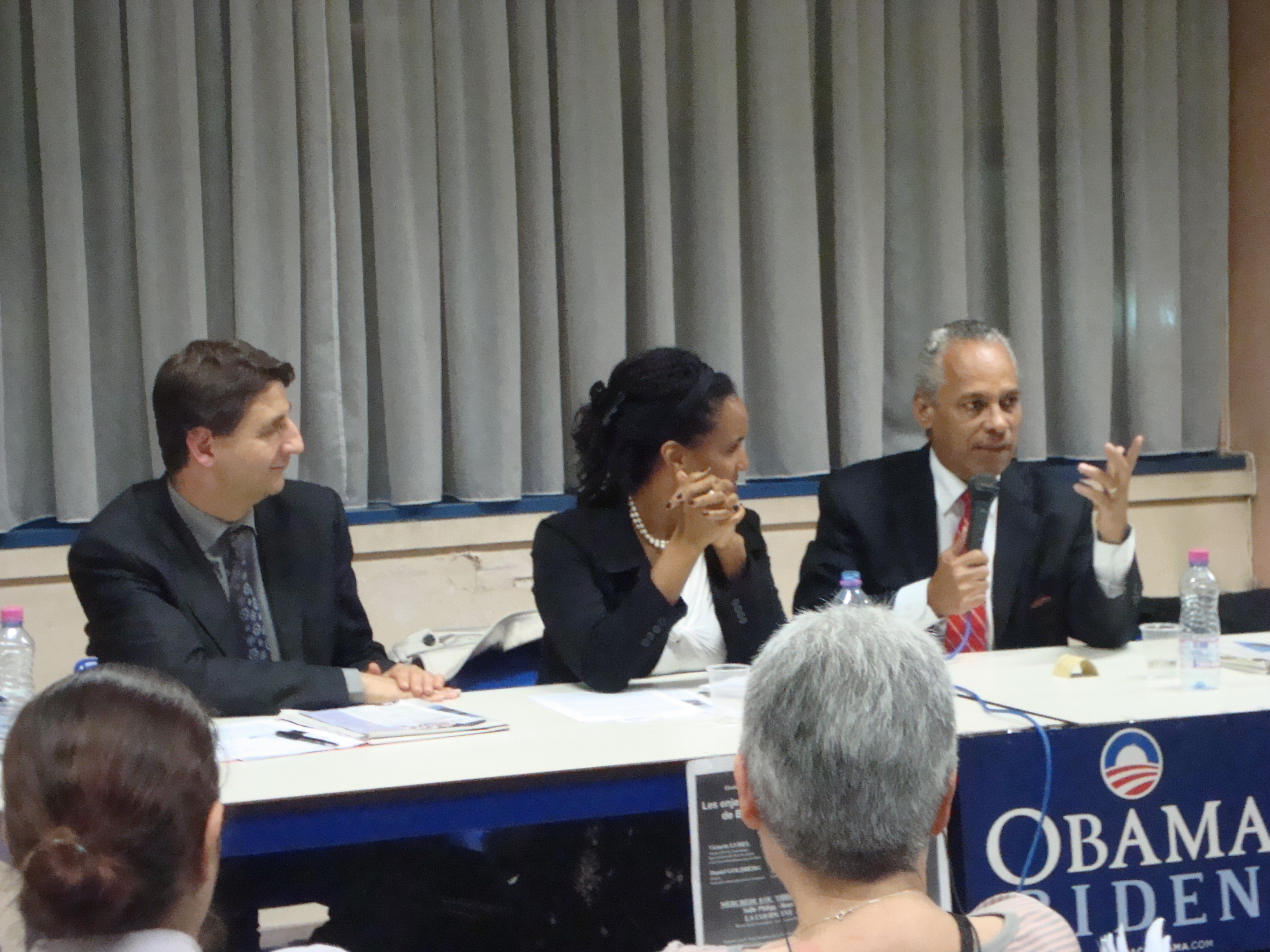 French deputy Daniel Goldberg with Democrats' Crystal Fleming French deputy Victorin Lurel at a debate on Barack Obama on October 8th 2008 in La Courneuve (France).